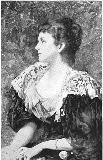 Portrait of Alice Leffingwell Buell Creelman